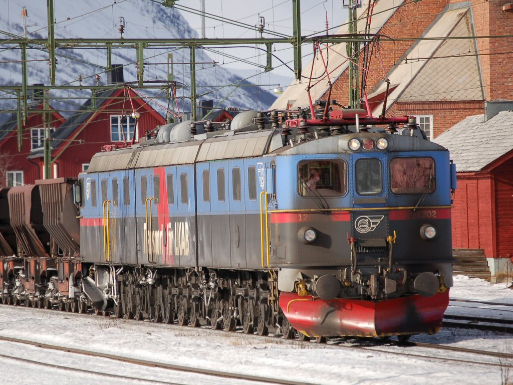 A Swedish Dm3 class triple-unit electric locomotive, photographed at on the Malmbanan in Abisko Östra, Sweden.